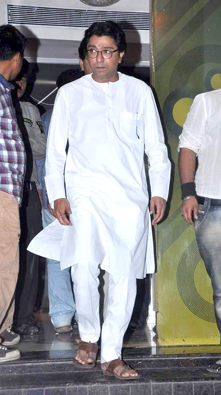 Raj Thackeray